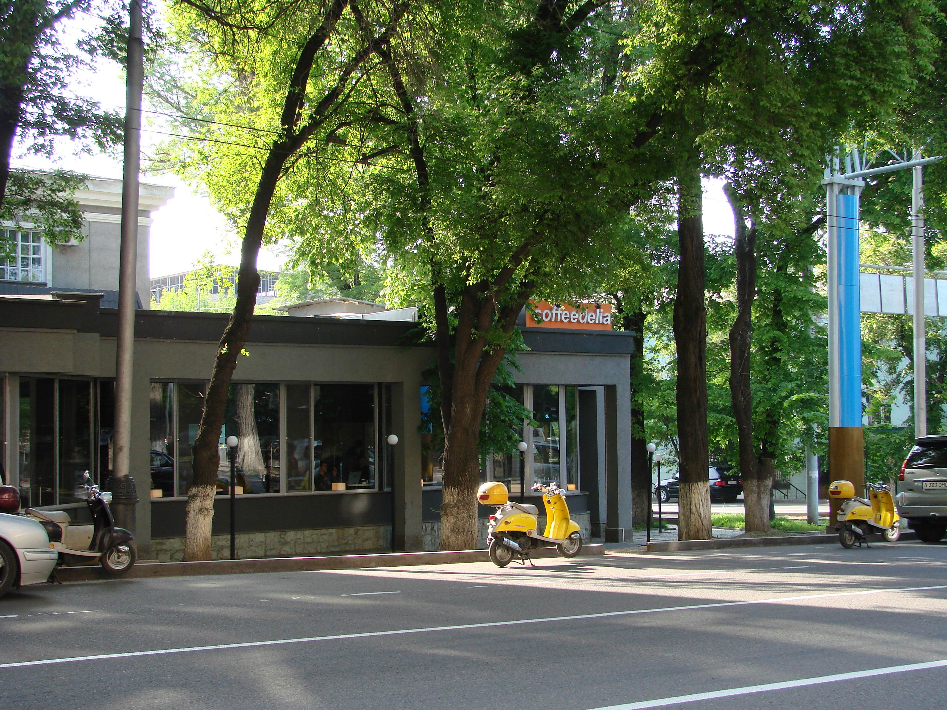 Internet cafe - "Coffeedelia"